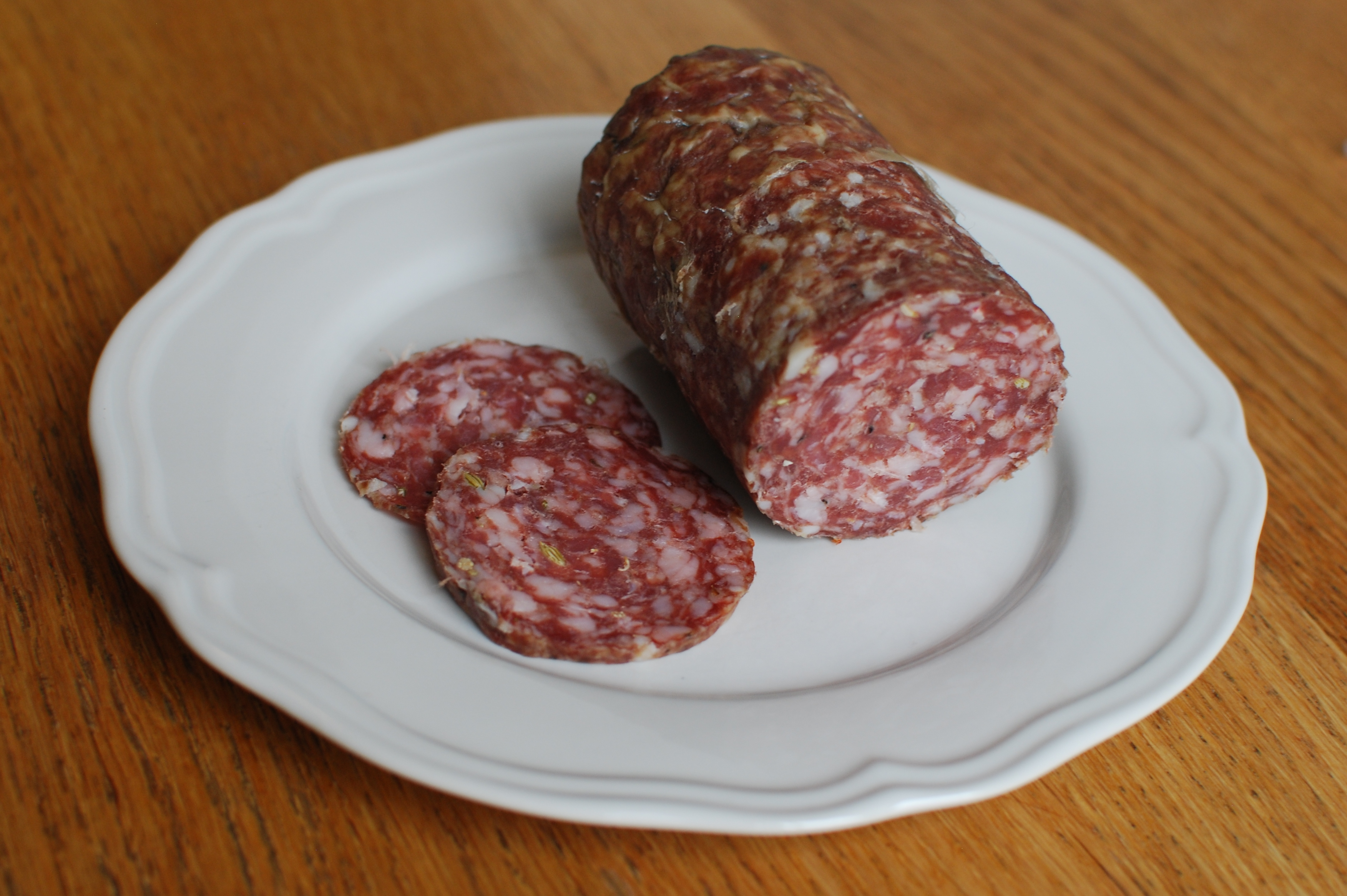 Finocchiona, salume / salami sausage with fennel from Tuscany, Italy